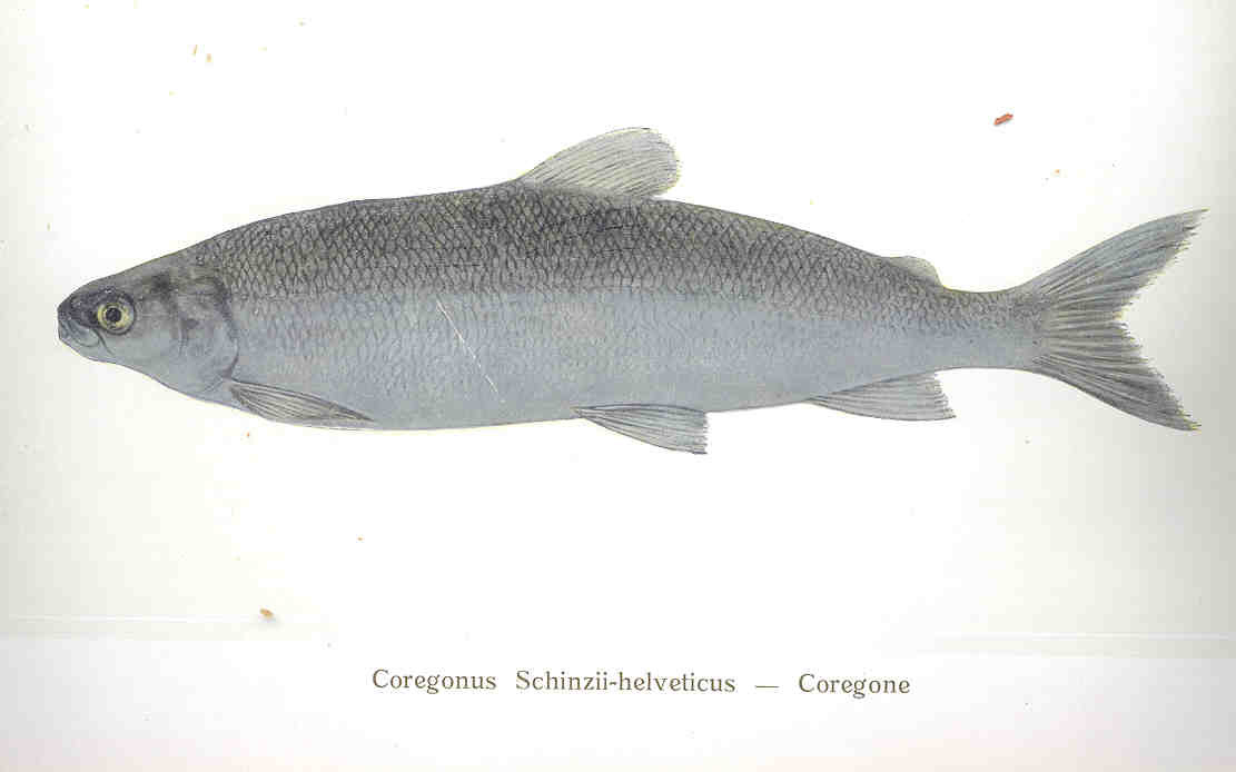 Subject: Coregonus Tag: Fish